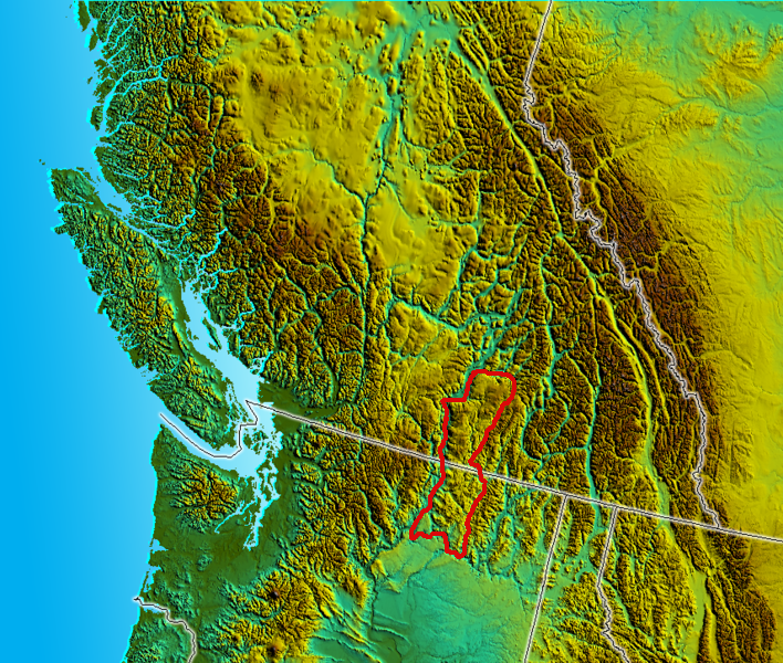 Adapted from an image in Wikimedia Commons :Image:708px-South_BC-NW_USA-relief_OKHighland.png